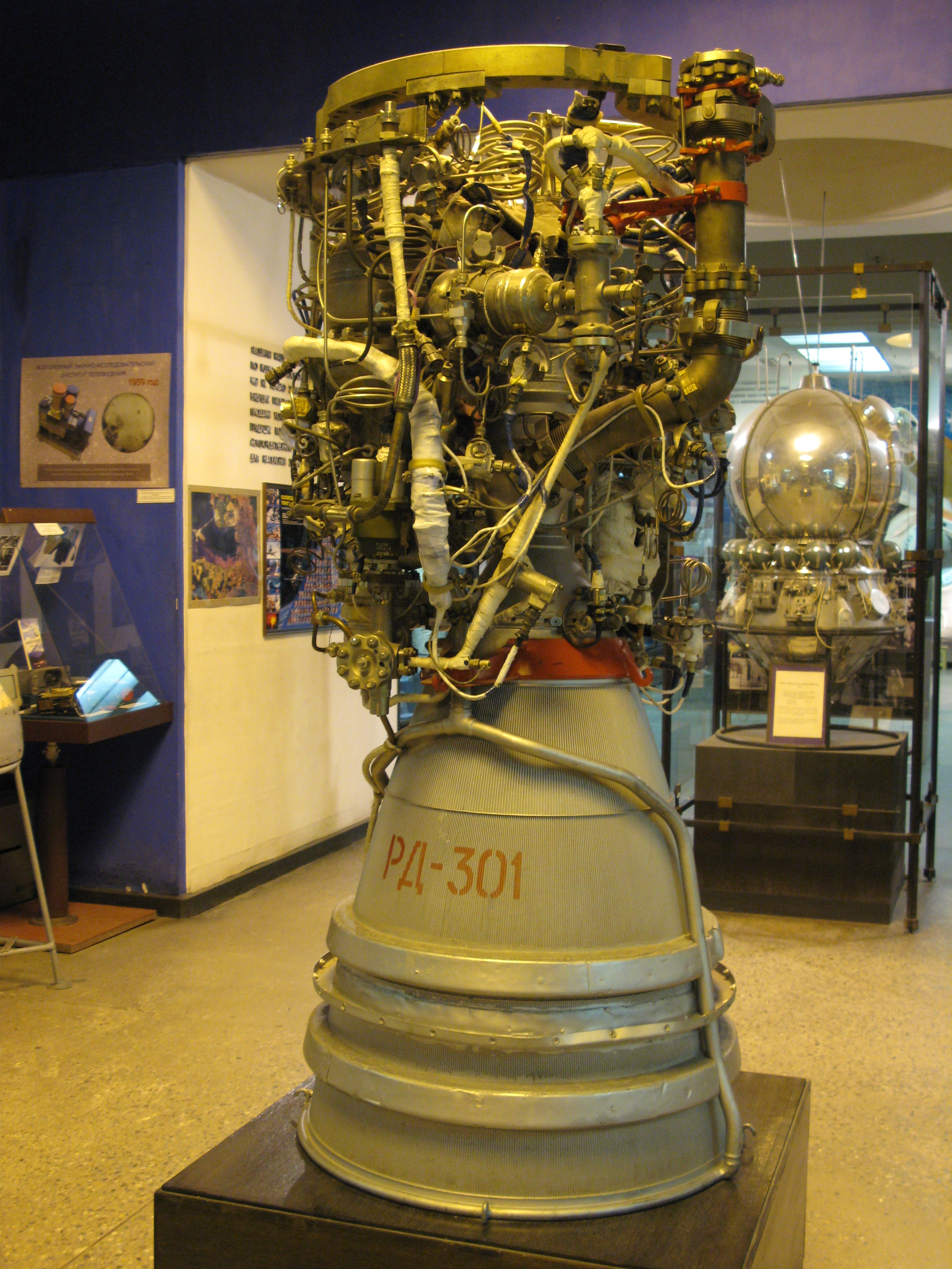 Museum of Space and Missile Technology (Saint Petersburg). RD-0110 rocket engine.)